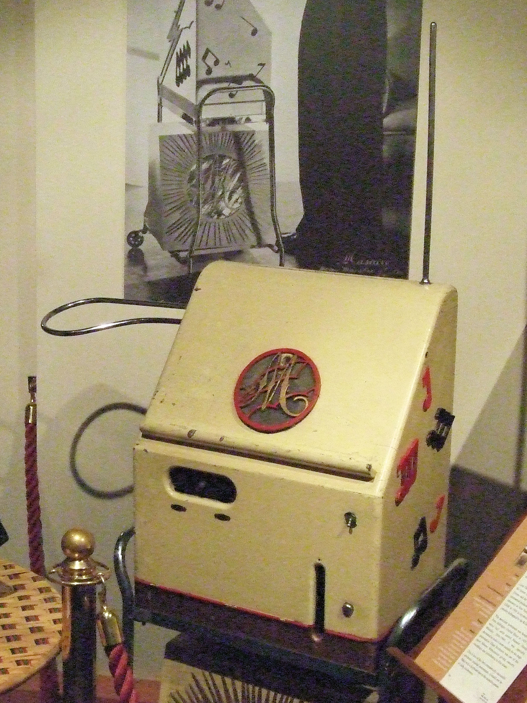 RCA Theremin displayed at the Musical Museum, Brentford. RCA theremin AR-1264 (1930), once owned by Musaire (Joseph Whitely 1894 - 1984) The theremin is one of the earliest electronic musical instruments, and the first musical instrument played without being touched. It was invented by Russian inventor Léon Theremin in 1919. The controlling section usually consists of two metal antennae which sense the position of the player's hands and control radio frequency oscillator(s) for frequency with one hand, and volume with the other. The electric signals from the theremin are amplified and sent to a loudspeaker. To play, the player moves his or her hands around the antennas, controlling frequency (pitch) and amplitude (volume). The theremin is associated with an eerie sound, which has led to its use in movie soundtracks such as those in Spellbound, The Lost Weekend, and The Day the Earth Stood Still.